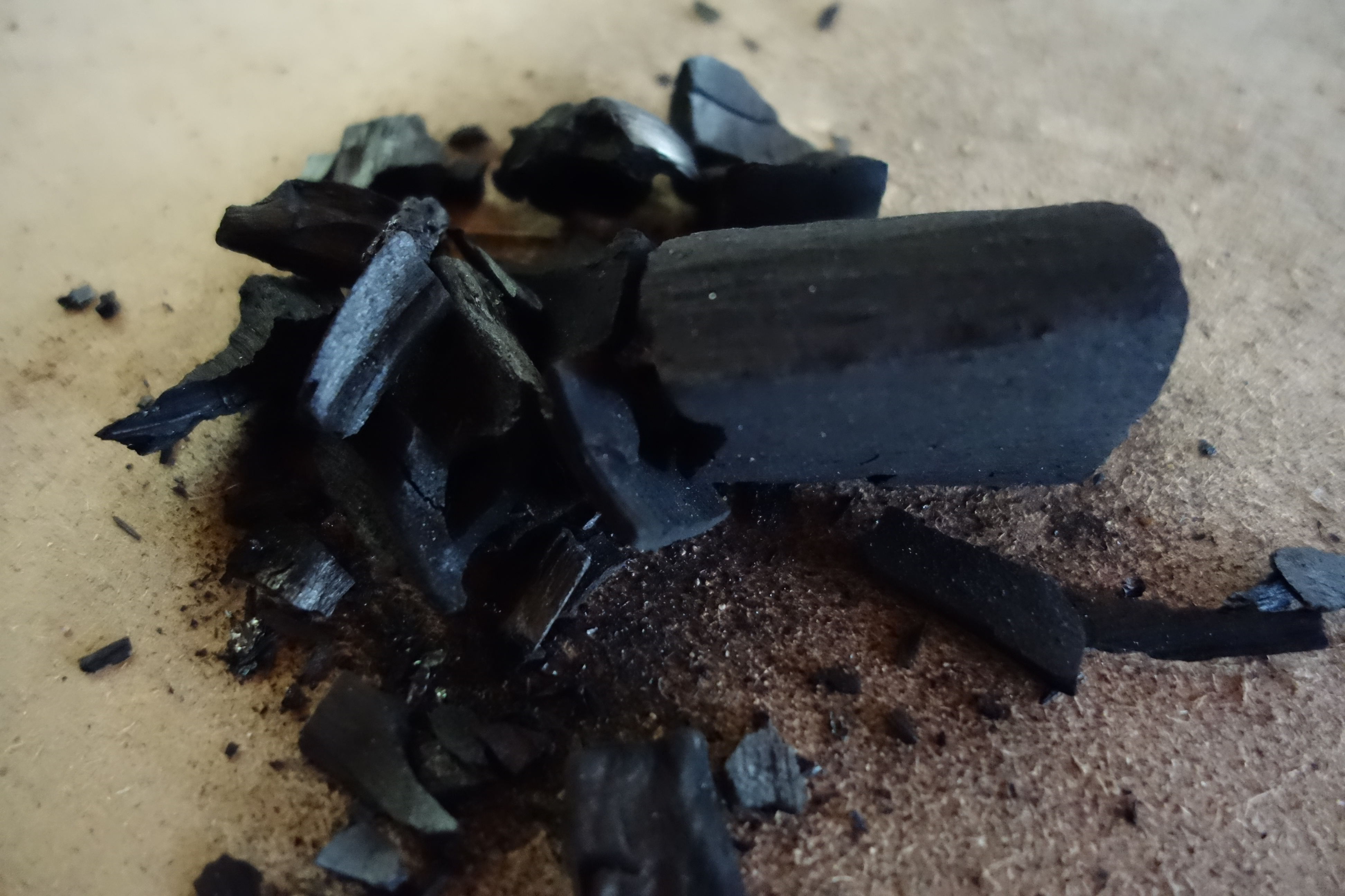 Charcoal made of pine wood (Moscow region, Russia)